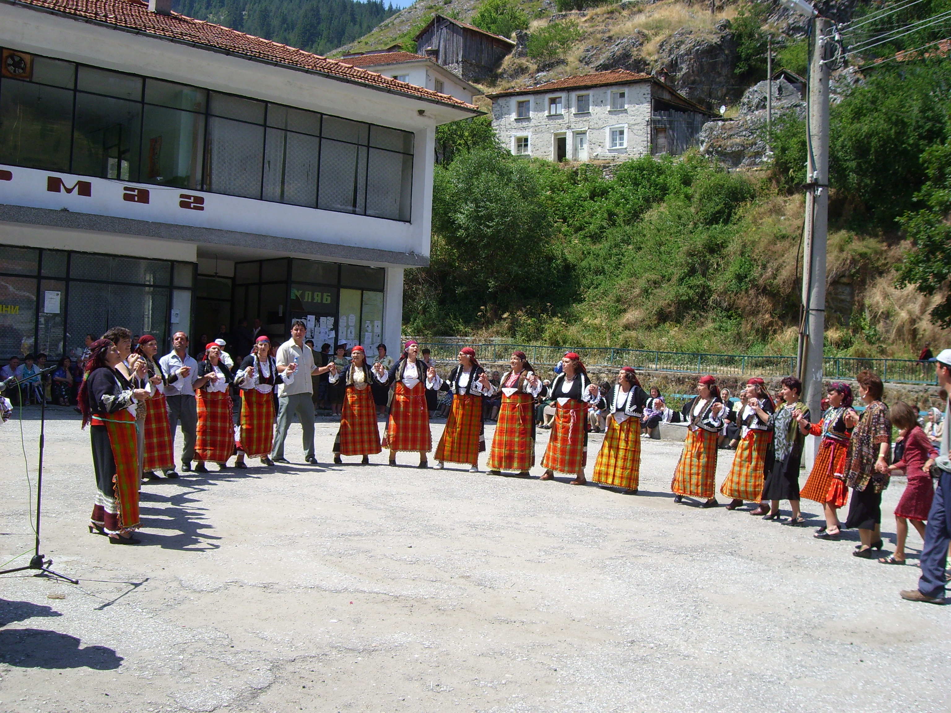 The village of Mugla.